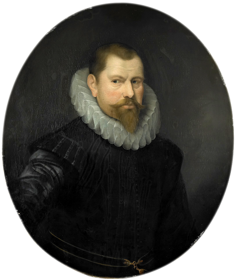 Part of the Rotterdam Dutch East India Company series.